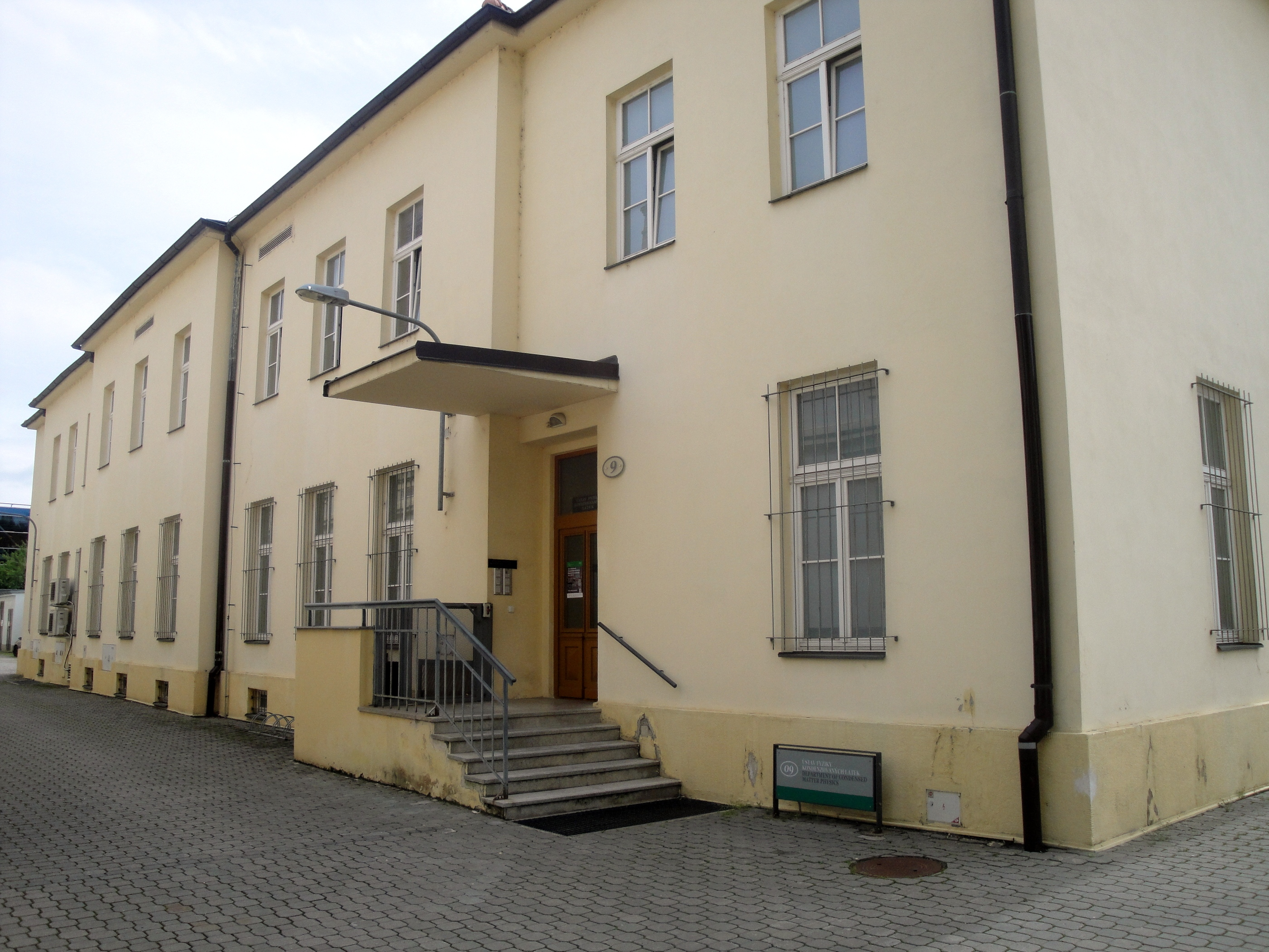 Masaryk University Faculty of Science, Brno